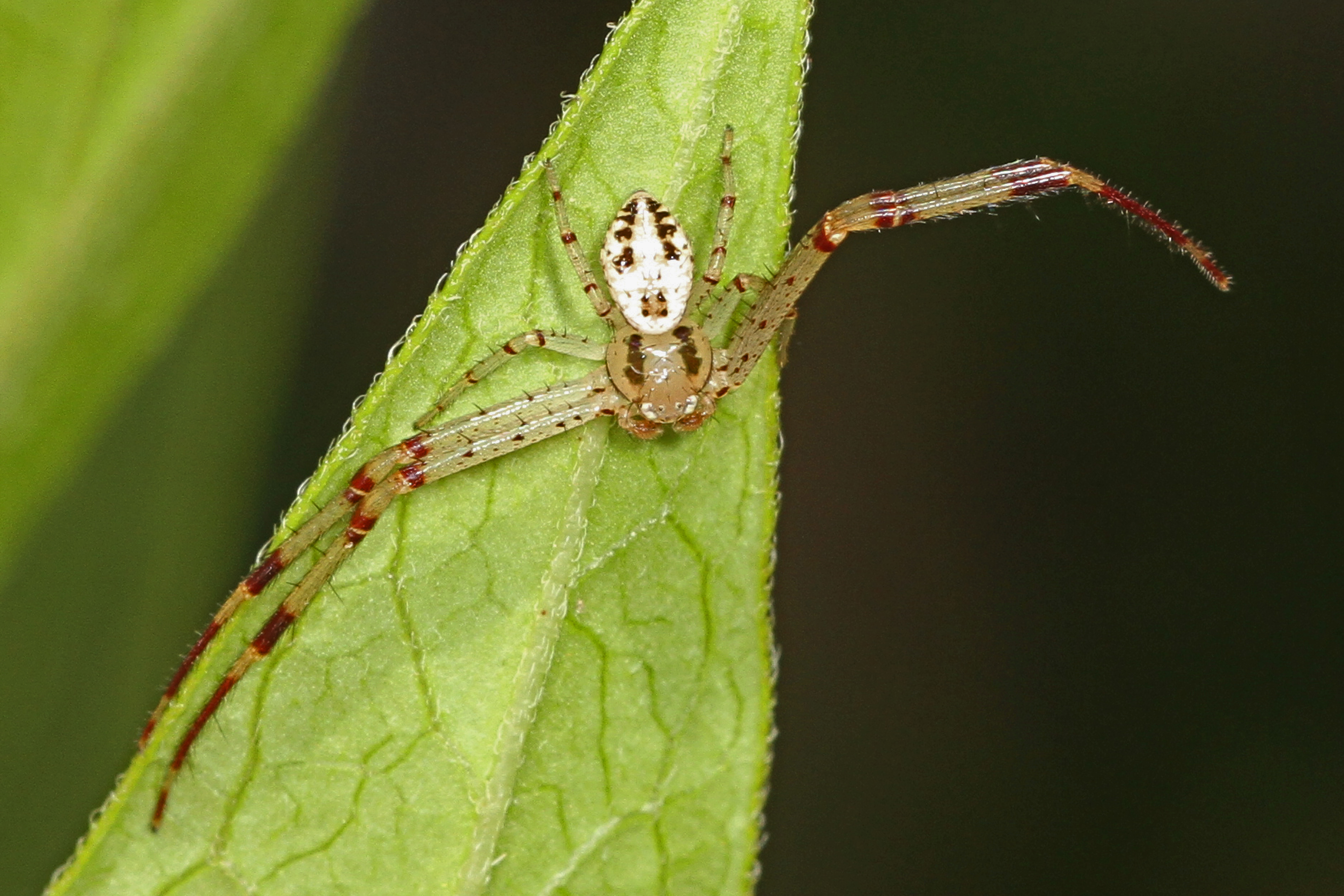 Swift Crab Spider - Mecaphesa celer, Merrimac Farm Wildlife Management Area, Aden, Virginia